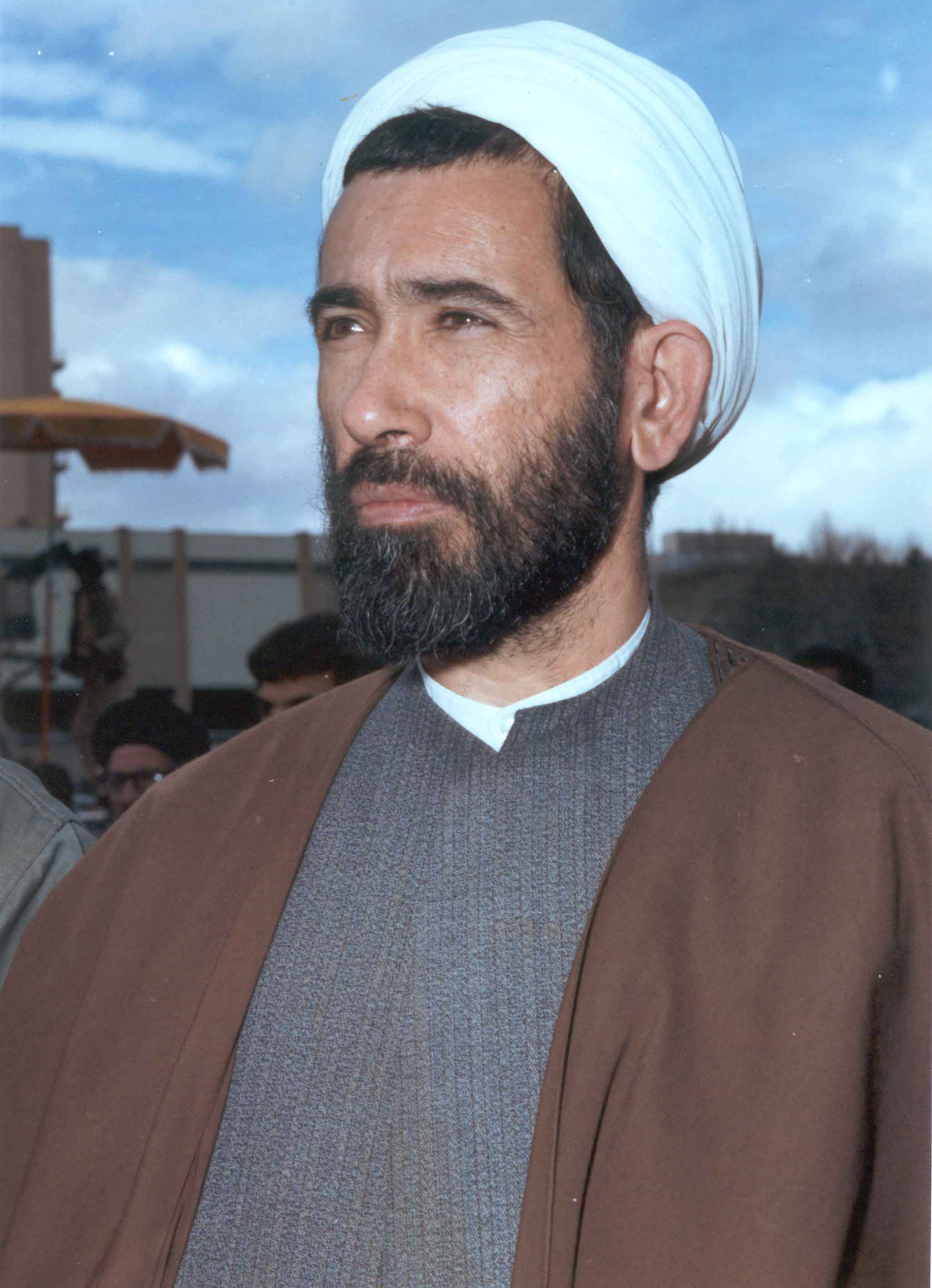 Mohammad Javad Bahonar, 77th Prime Minister of Iran